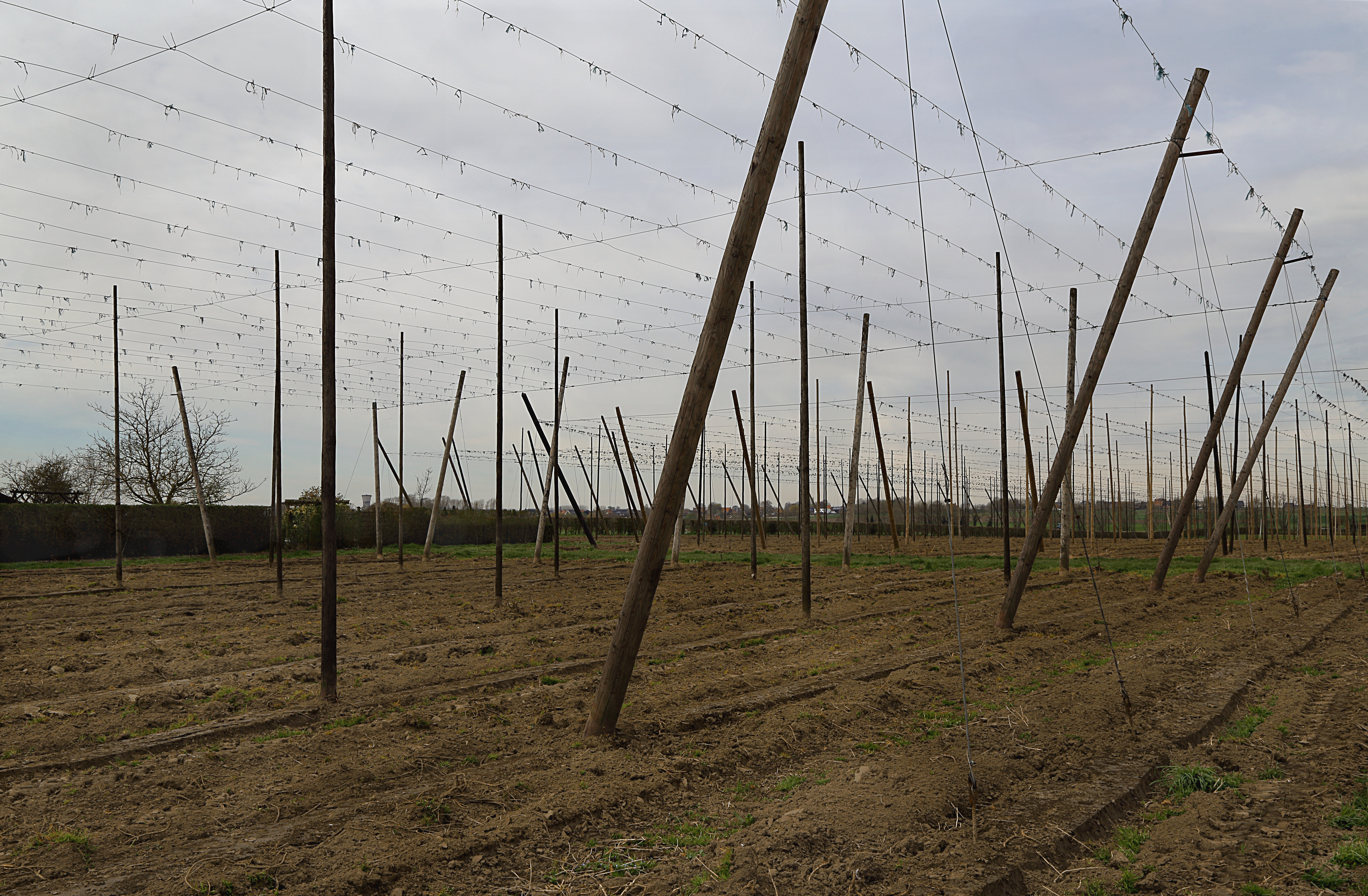 A hop garden in the spring (April). Picture taken in Poperinge, Belgium.